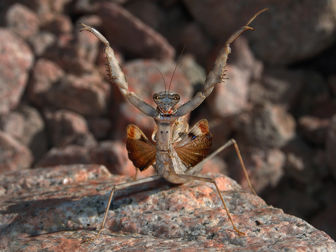 Bolivaria brachyptera, mantis in the foothills of the Tien Shan. The threatening posture to increase your own size